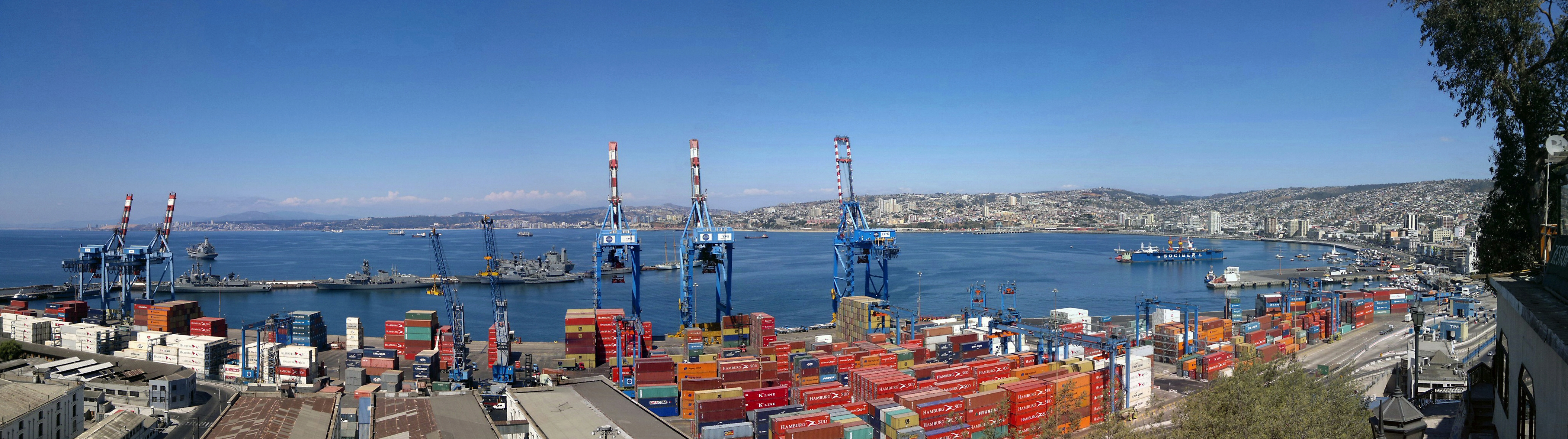 Panoramic view of Valparaíso taken from Mirador veintiuno de mayo, Playa ancha. Nokia N8 smartphone and Panorama application.